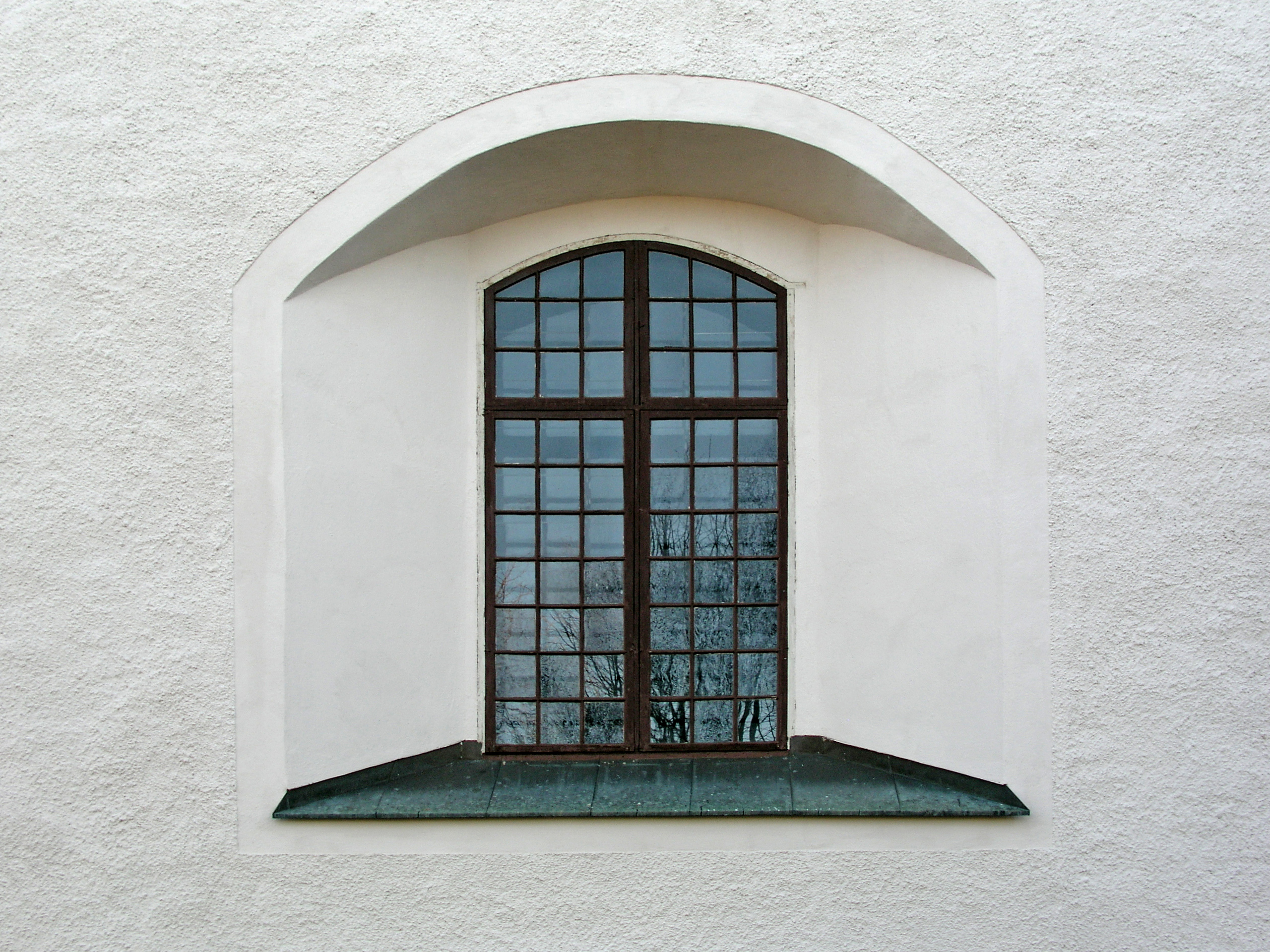 Täby kyrka, Diocese of Stockholm. Church window. The photo was taken the 15th of April 2006 by Håkan Svensson (Xauxa).